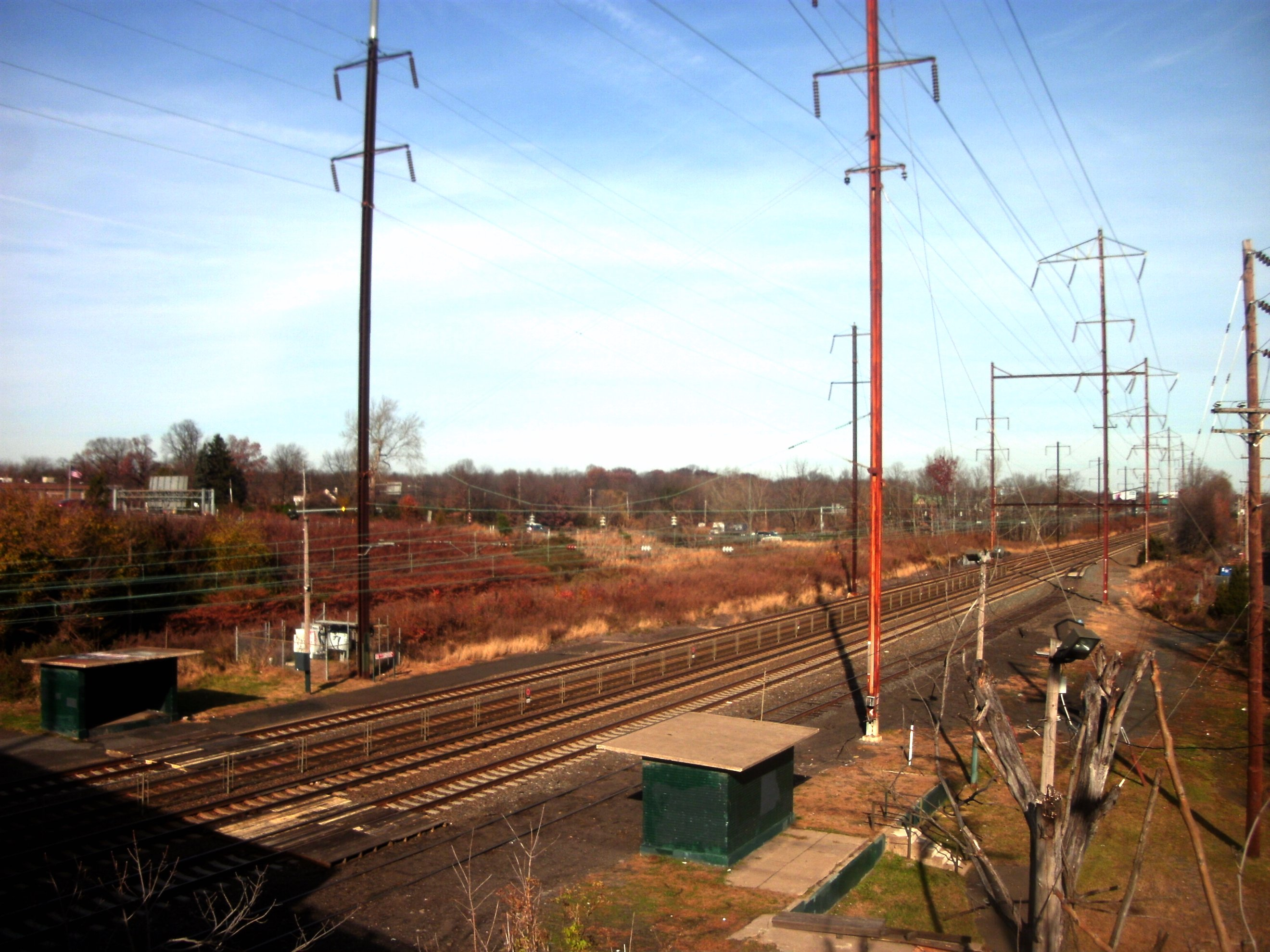 The Eddington SEPTA station in Eddington, Pennsylvania as viewed from the extension of Street Road (Route 132).